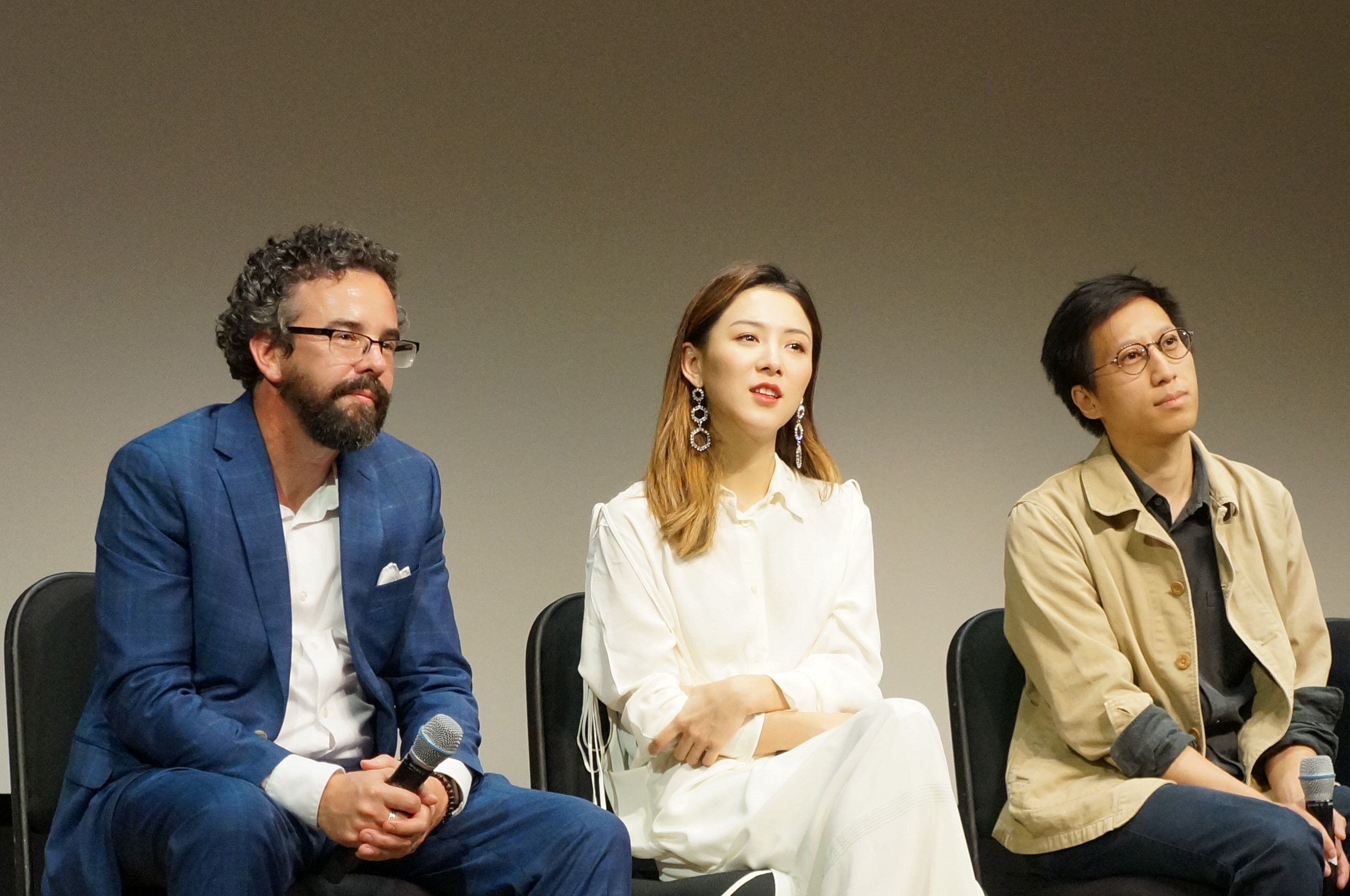 On July 27, 2018, at the Freer Sackler Gallery in Washington DC, a panel discussion about the Hong Kong film 今晚打喪屍 Zombiology: Enjoy Yourself Tonight (2017) featuring (l to r) Tom, Venus Wong, and Alan Lo.